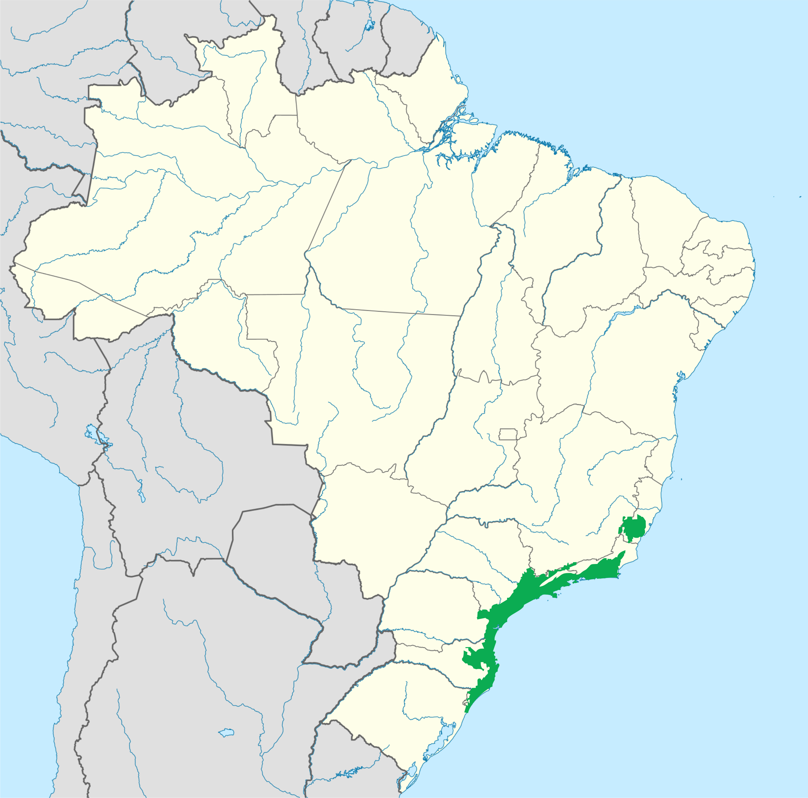 Approximate area of the Serra do Mar coastal forests ecoregion — of the Atlantic Forest biome. As delineated by WWF.